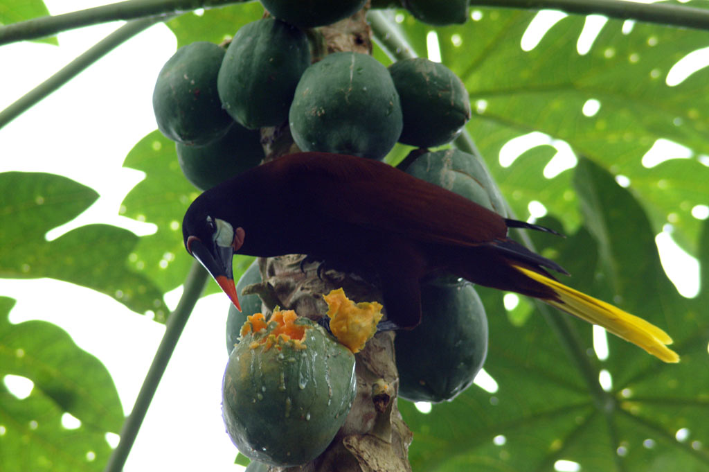 Montezuma oropendola, Great oropendola